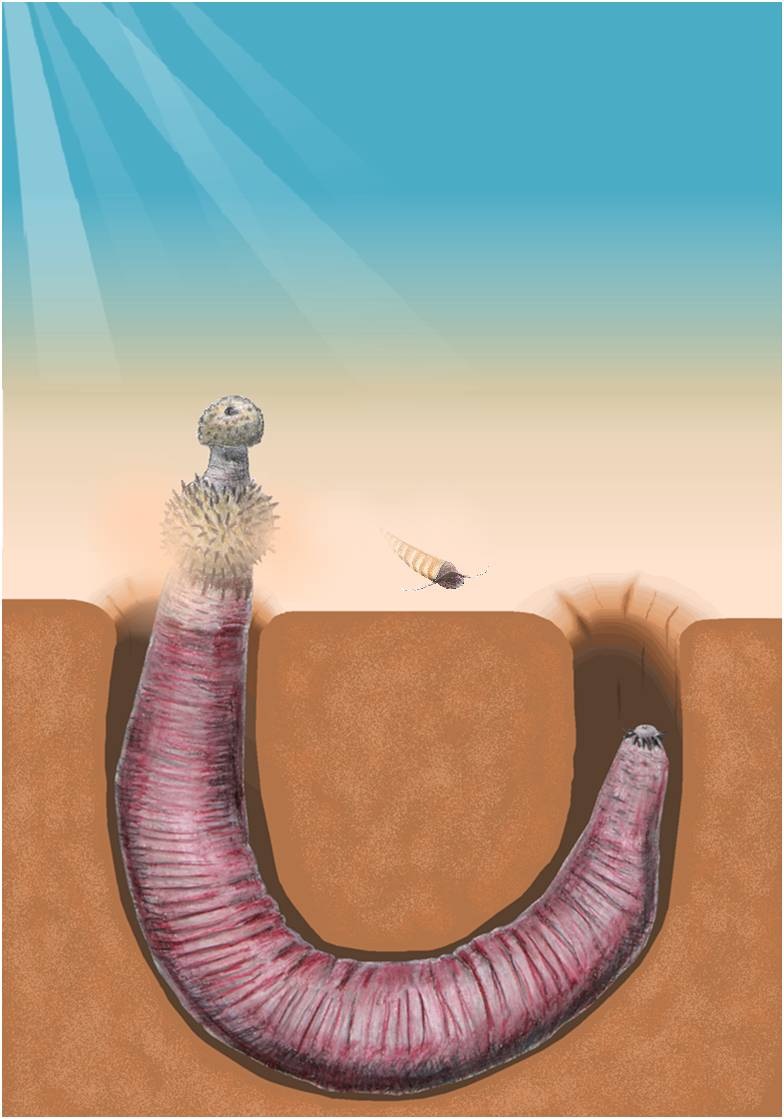 Life restoration of Ottoia in natural environment with nearby Haplophrentis.